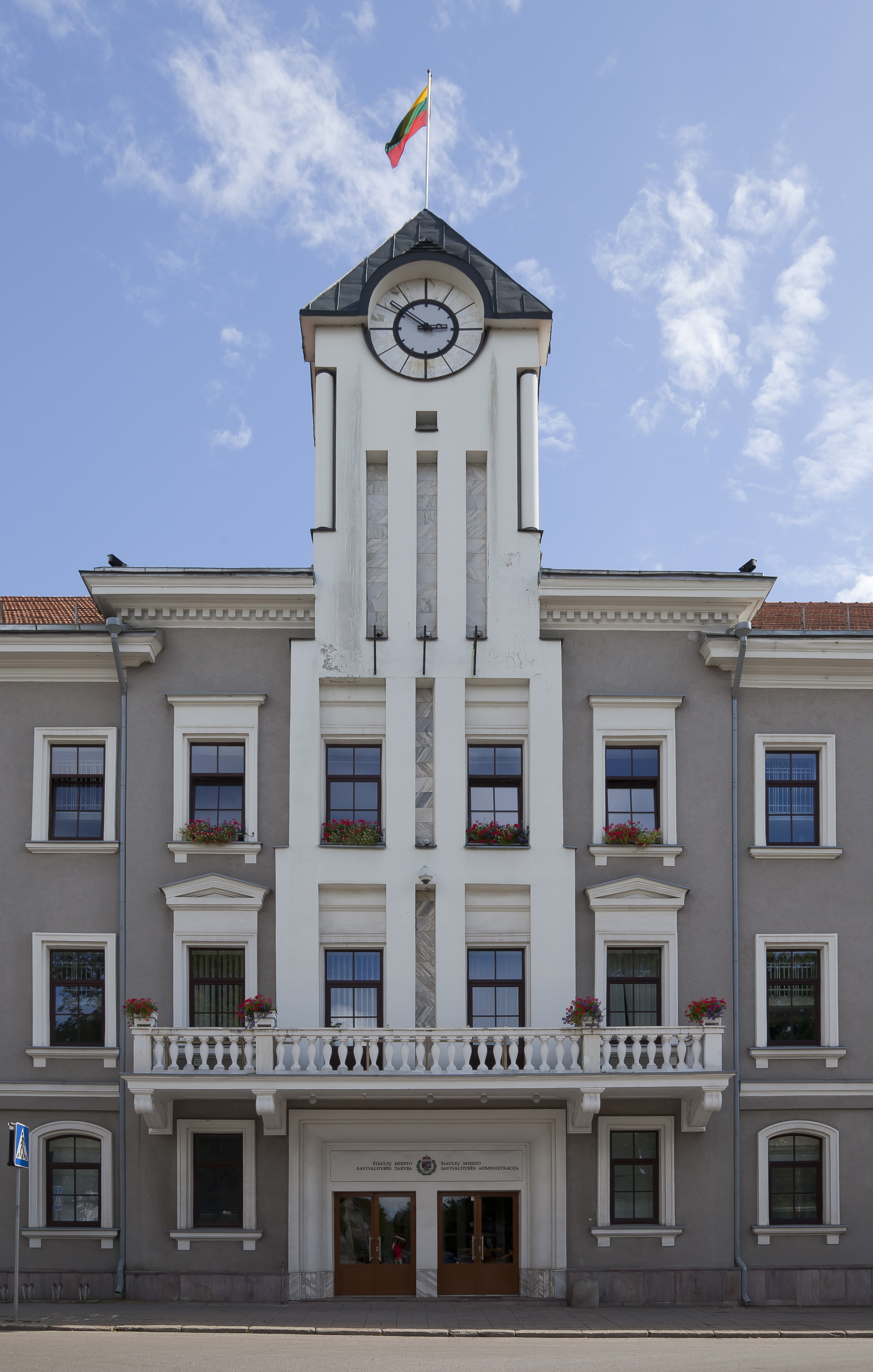 Town hall in Siauliai, Lithuania